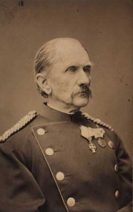 Hans Frederik Rosenkrantz (1822-1905), Danish Baron and army officer